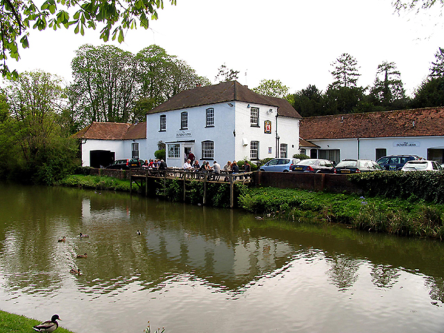 Kennet and Avon Canal at the Dundas Arms: Kintbury. The pub situated on the south bank of the canal is situated in the southern half of the grid square. This picture was taken from the road bridge looking more or less east.